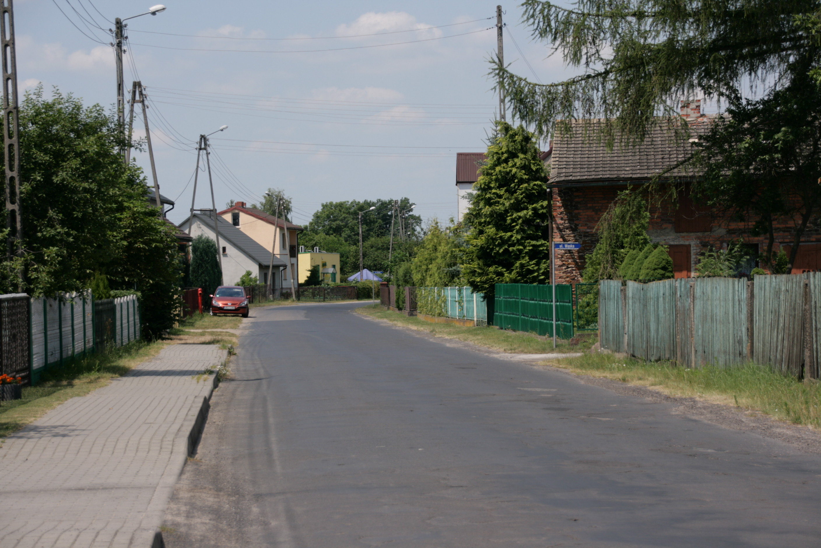 Glowna Street in Przedmosc